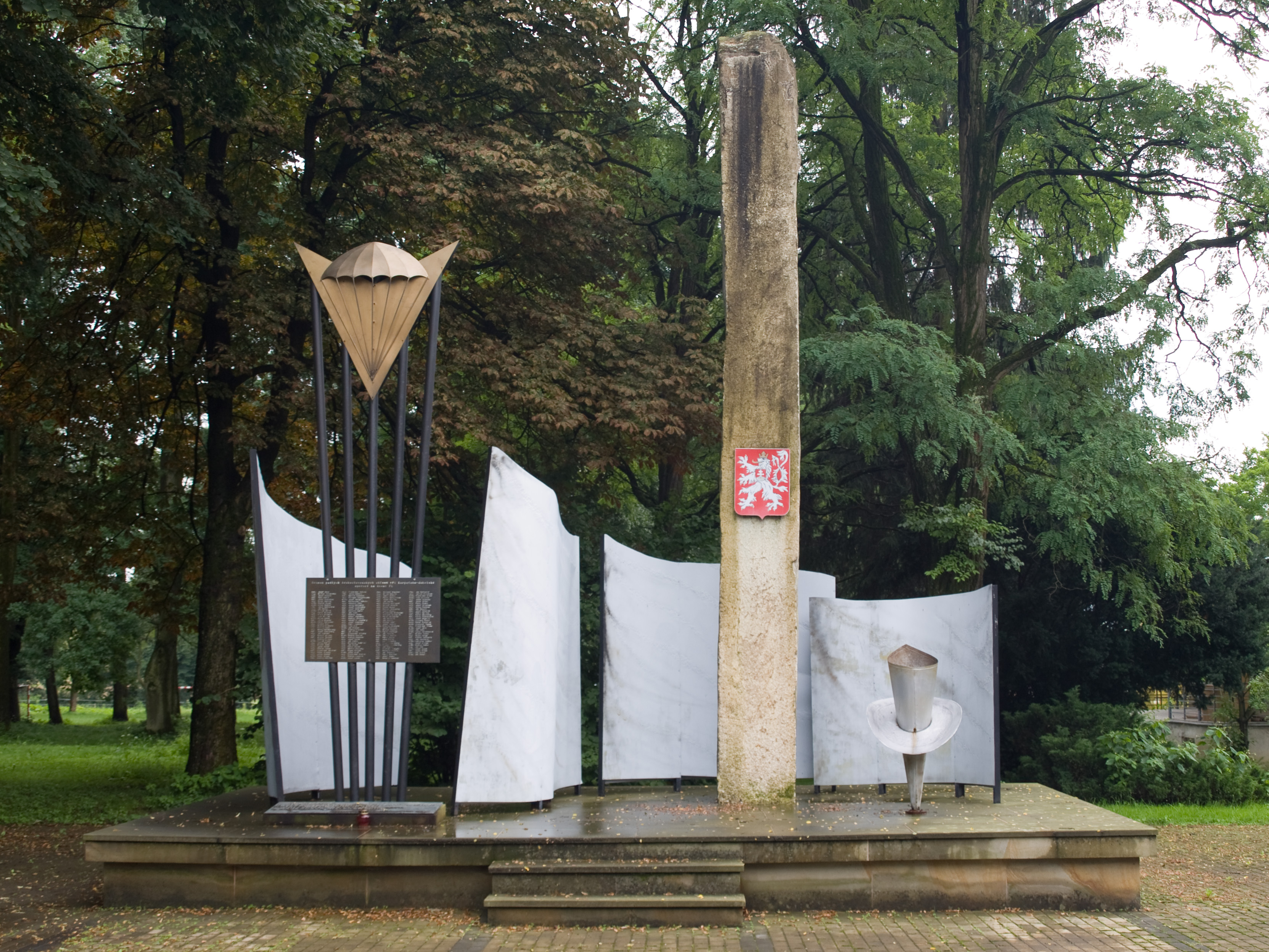 Memorial, Nowosielce, Subcarpathian Voivodeship